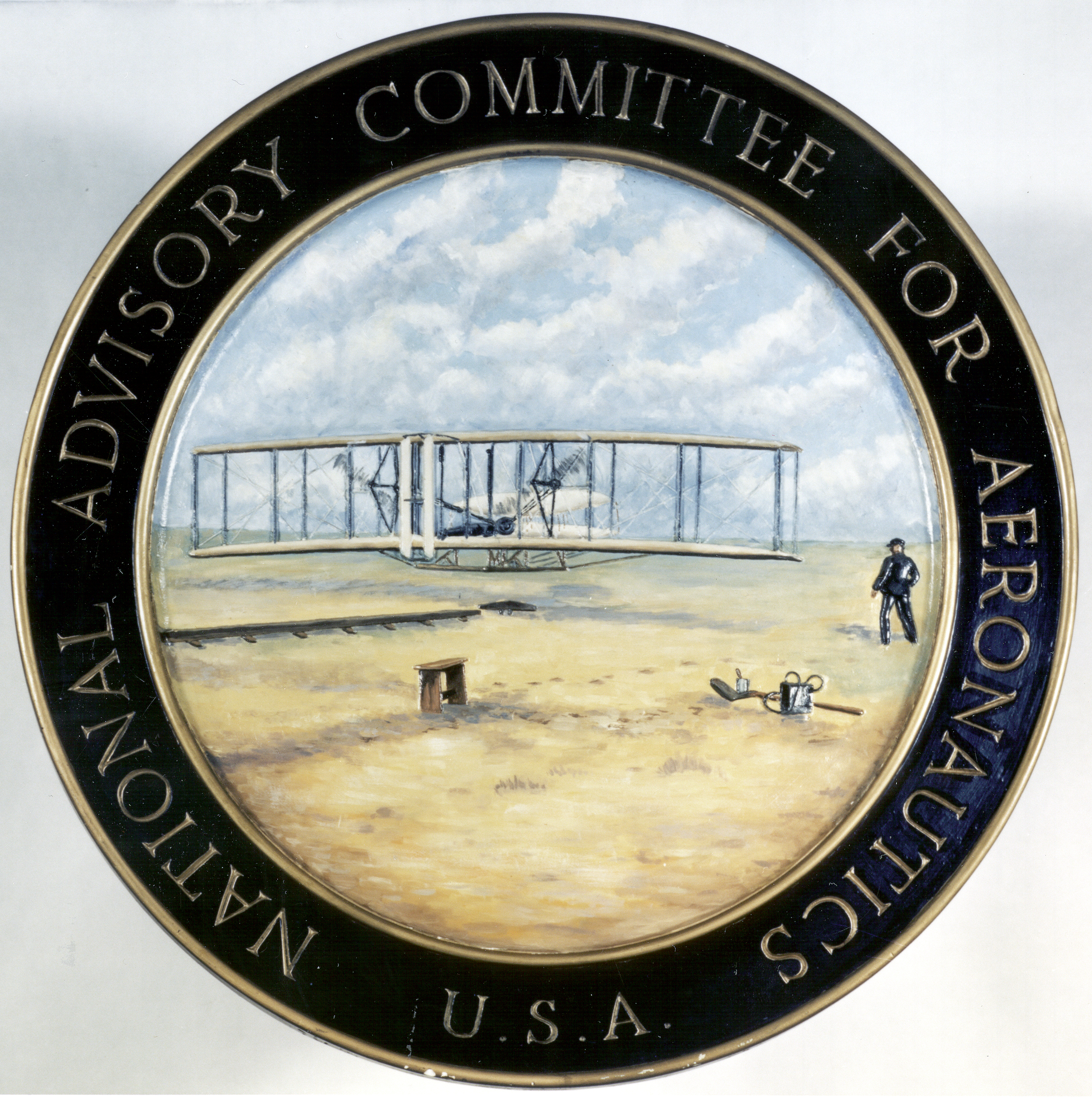 This is the official seal for the National Advisory Committee for Aeronautics (NACA) which was established by an act of Congress in March 1915. The seal depicts the first human-controlled, powered flight made by the Wright brothers in December 1903 at Kitty Hawk, North Carolina. NACA was later incorporated into the National Aeronautics and Space Administration (NASA) in 1958.